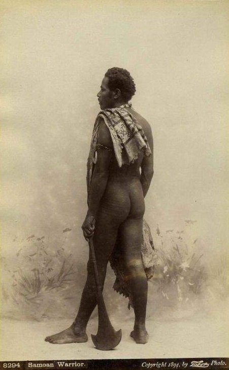 Taber Photo (San Francisco) - Samoan Warrior. Catalogue # 8294. Copyright 1894.